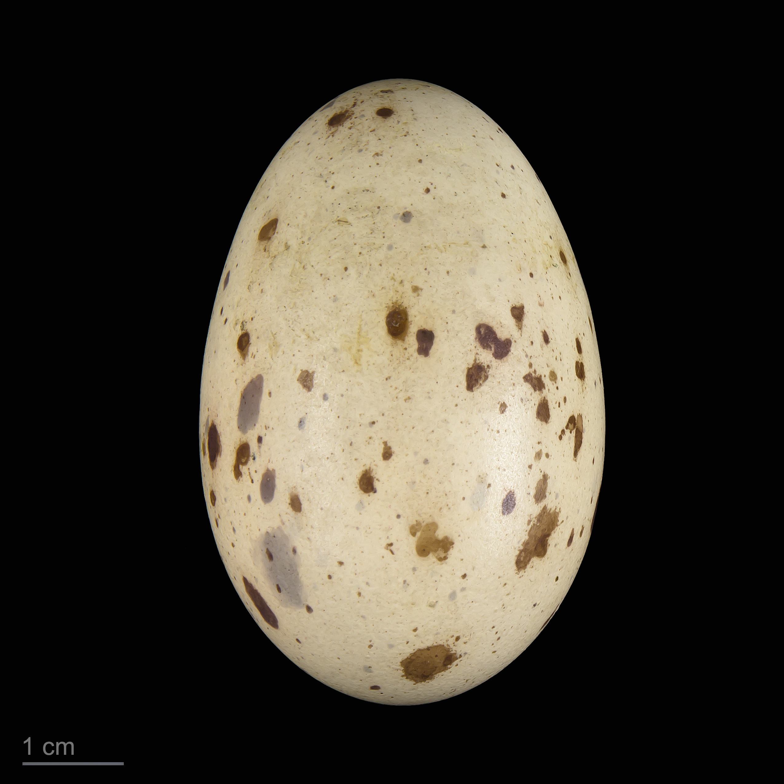 Egg of Grey-headed swamphen collection of Jacques Perrin de Brichambaut.